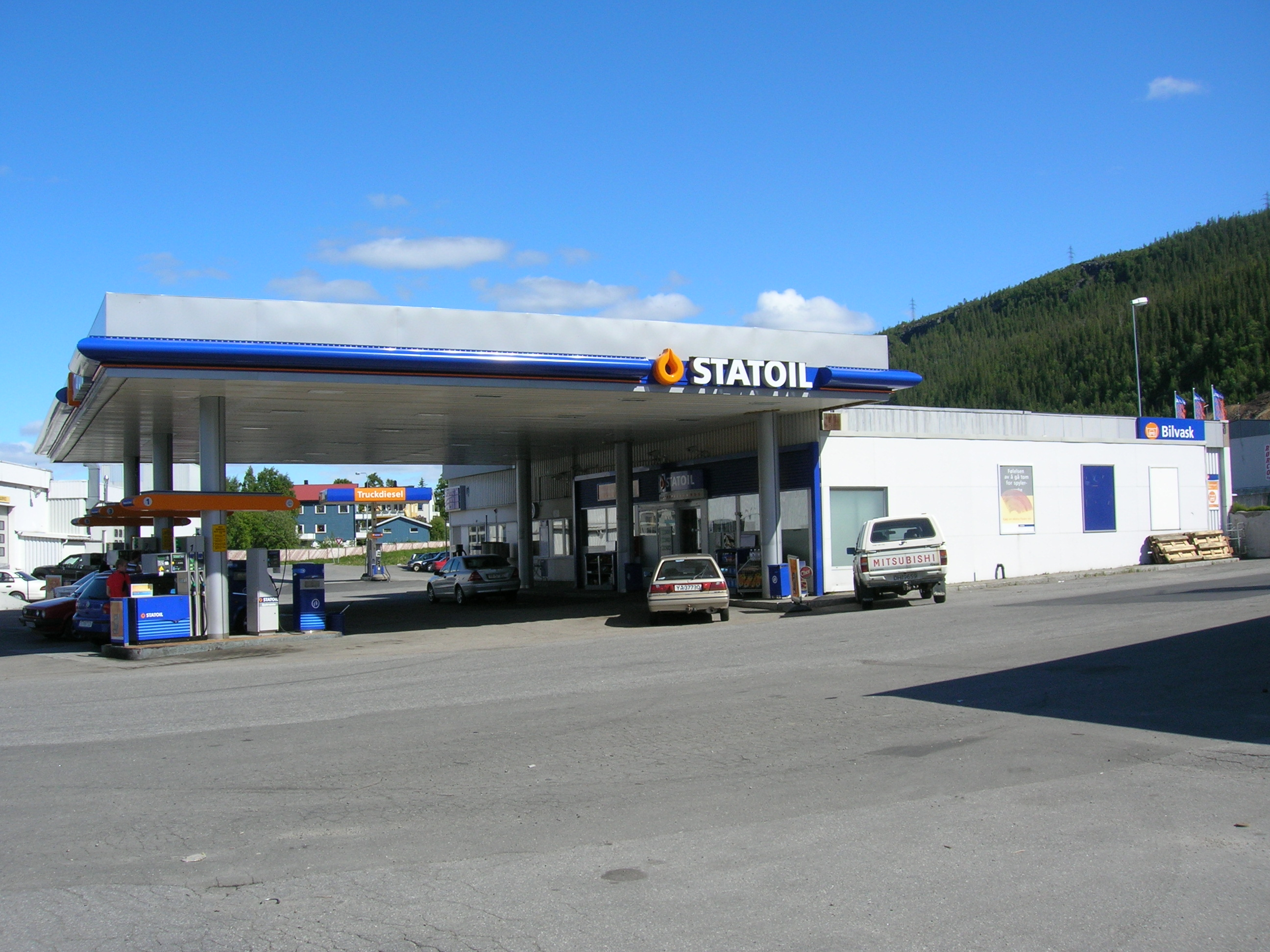 Statoil petrol station in Langneset, Mo i Rana, Rana municipality, Nordland, Norway. Photo June 17, 2007 with a Nikon Coolpix 5600 5,1 Megapixel camera.